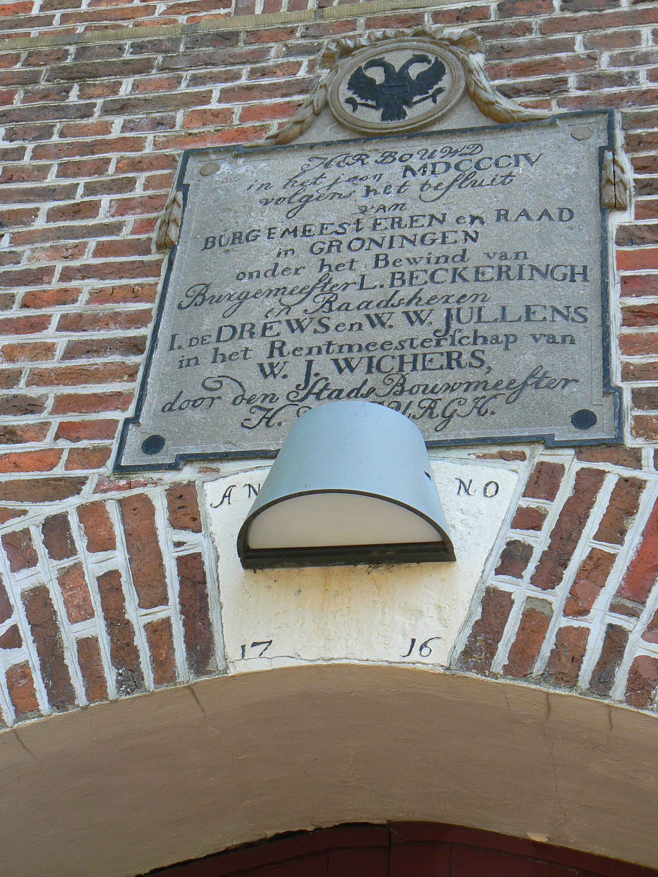 N.H. kerk, Wedderweg in Oude Pekela/The Netherlands